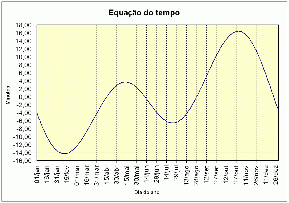 Equation of Time